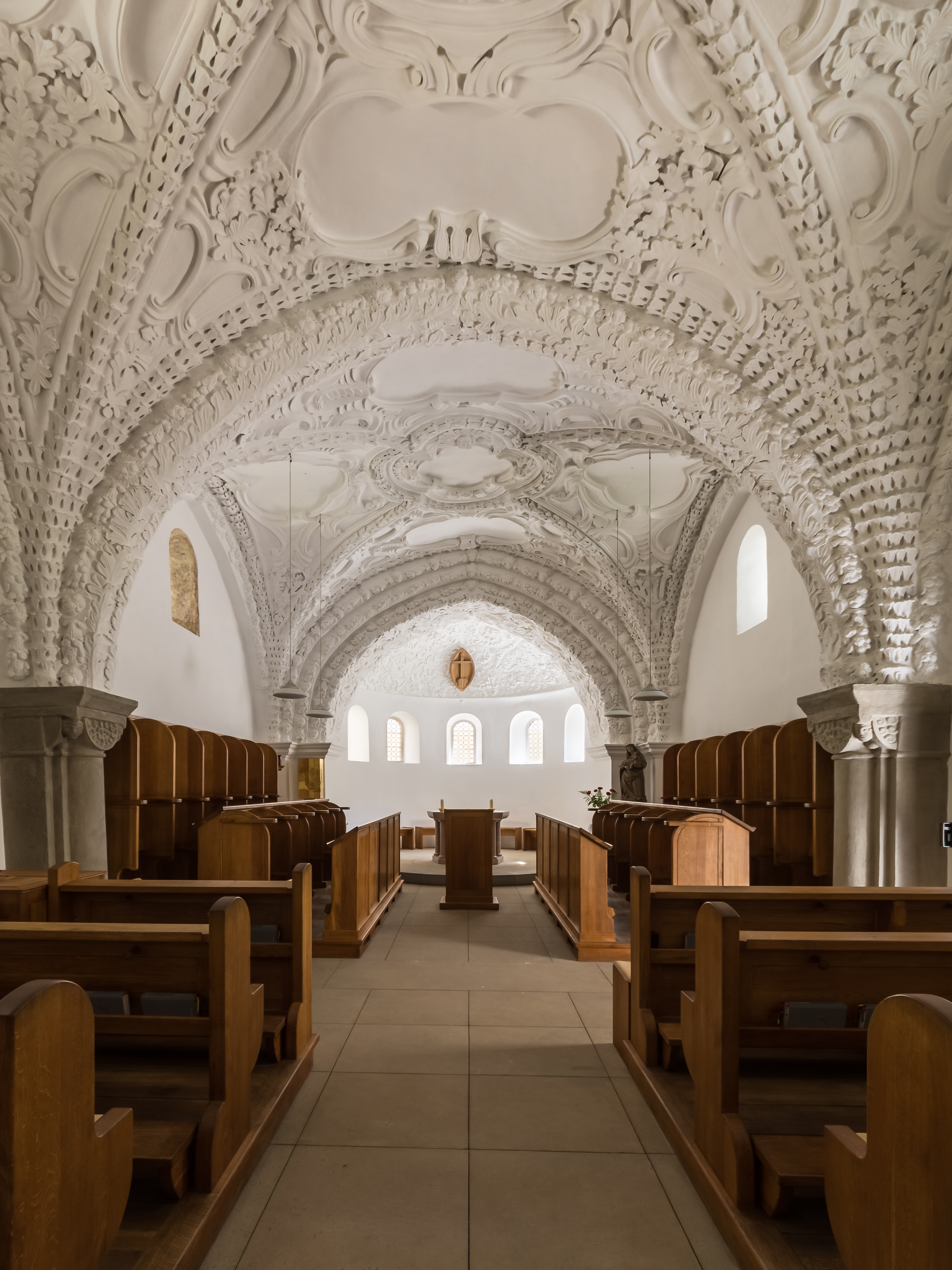 Ritterkapelle (Chapel of Knights) at Seitenstetten Abbey, Lower Austria